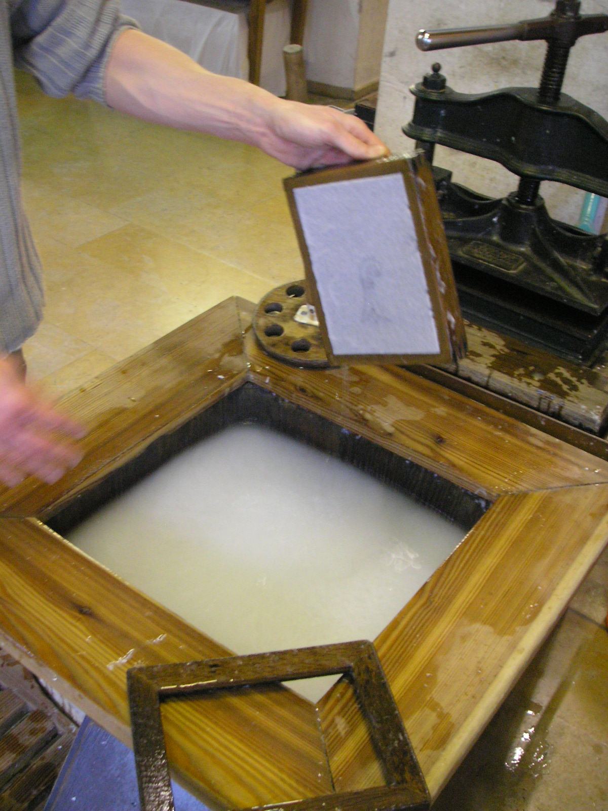 The production of hand-made paper. The pulp accumulates in the wooden-framed screen which is carefully taken out so that the pulp settles equally on all sides. The wooden frame is removed. The water drips away from the screen until the pulp sticks safely to it. With a swift move, the screen is put up-side down on a wooden block and pressed hard, so that is releases itself from the screen onto the block. The different sheets of pulp are separated by sheets of waterproof paper or fabric. After repeating the cycle a couple of times, sheets are taken to the press where they are put under pressure to press the last moisture out. The sheets are then put into a hot-press where they are dried.